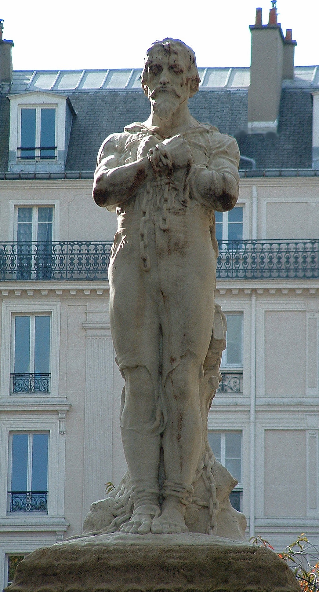 Statue of Michel Servet in the "Aspirant Durand" square (XIVe arr.). Marble, 1908, sculptor Jean Baffier